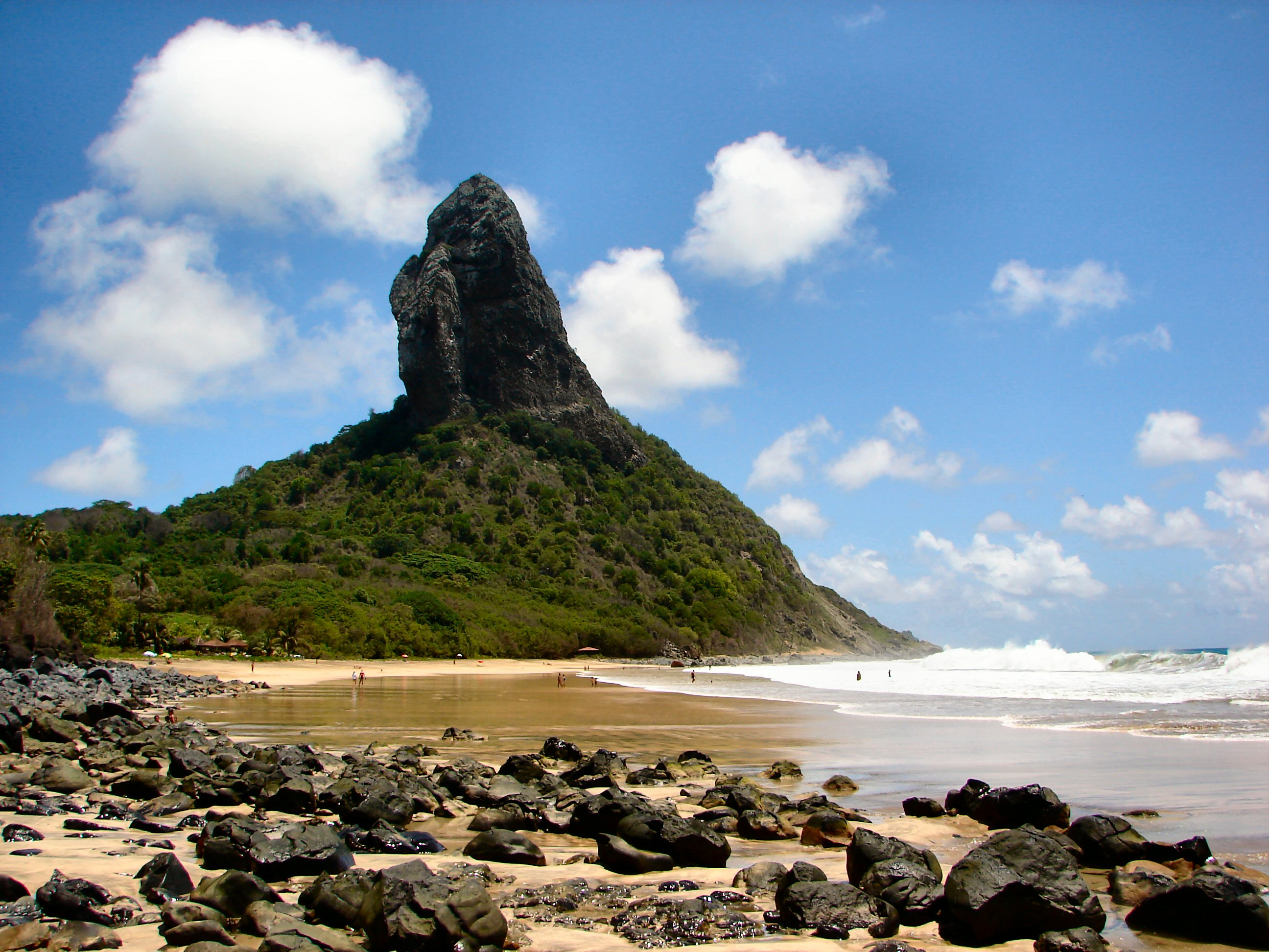 Morro do Pico by Praia Conceicao (321 metres) is a prominent feature of the island Fernando de Noronha off the north-eastern "corner" of Brazil.